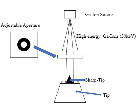 FIB Milling